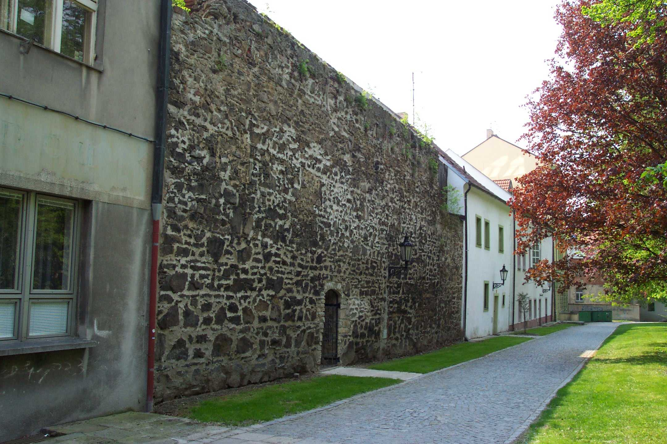 City walls of City of Písek, Czech republic - Hradby města Písku